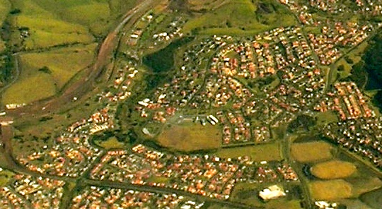 Aerial photo of Flinders, near Wollongong new South Wales